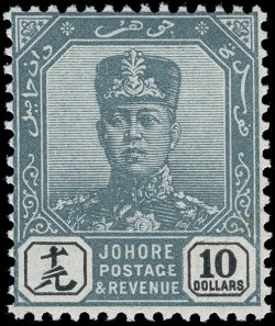 1904 $10 Johore stamp; Sultan Ibrahim. SG # 59-73 (61-75).